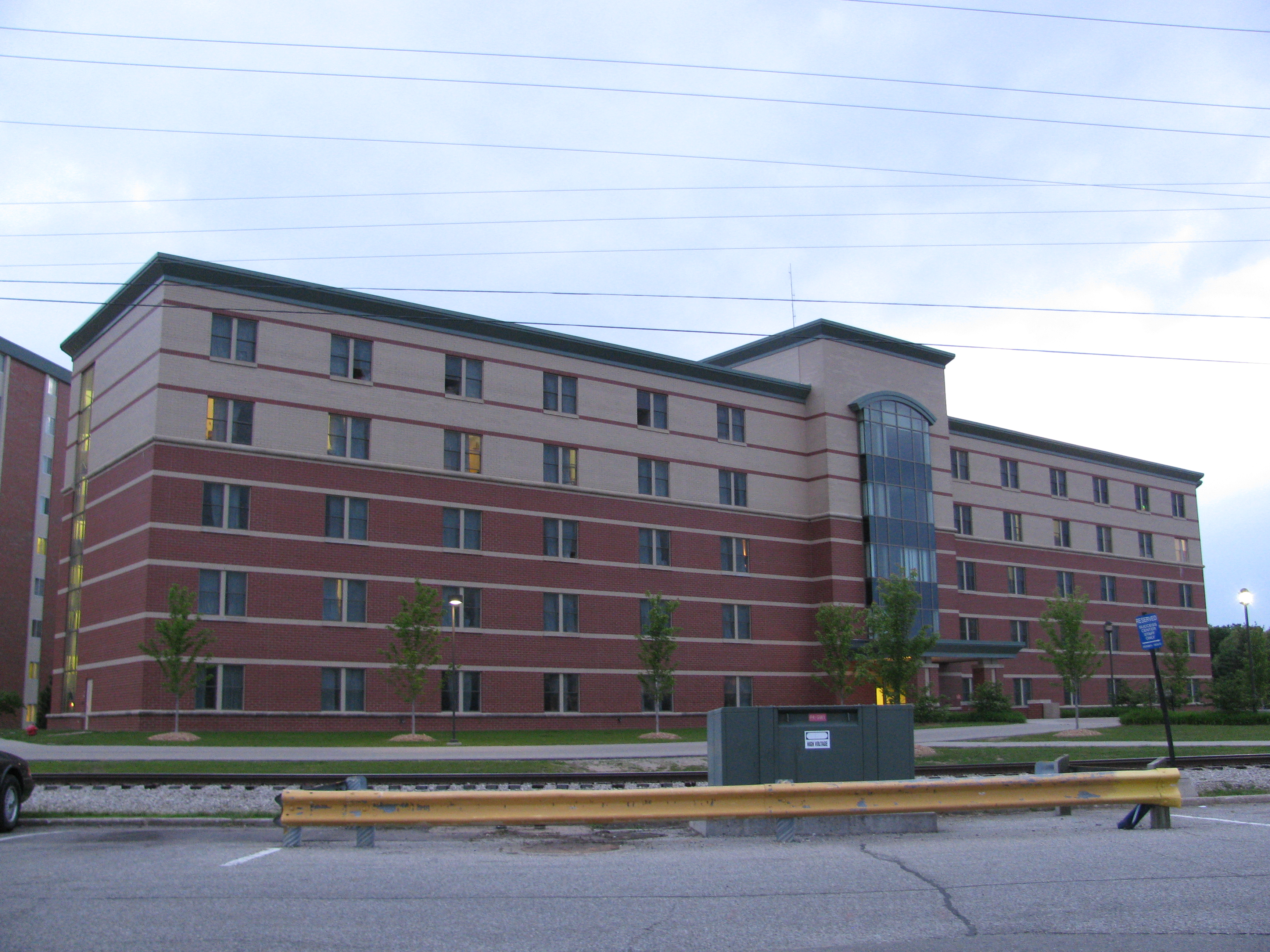 Kesseler Hall, Located in the Towers at Central Michigan University